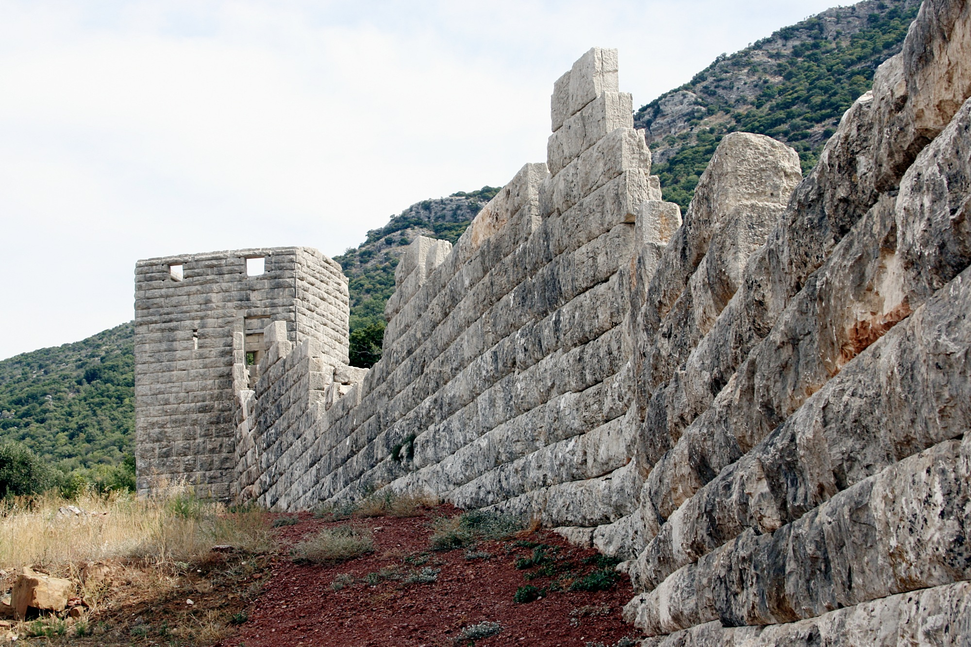 Messene, city walls near the arcadian gate.